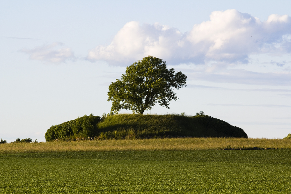 Grave site in Östergötland, Sweden